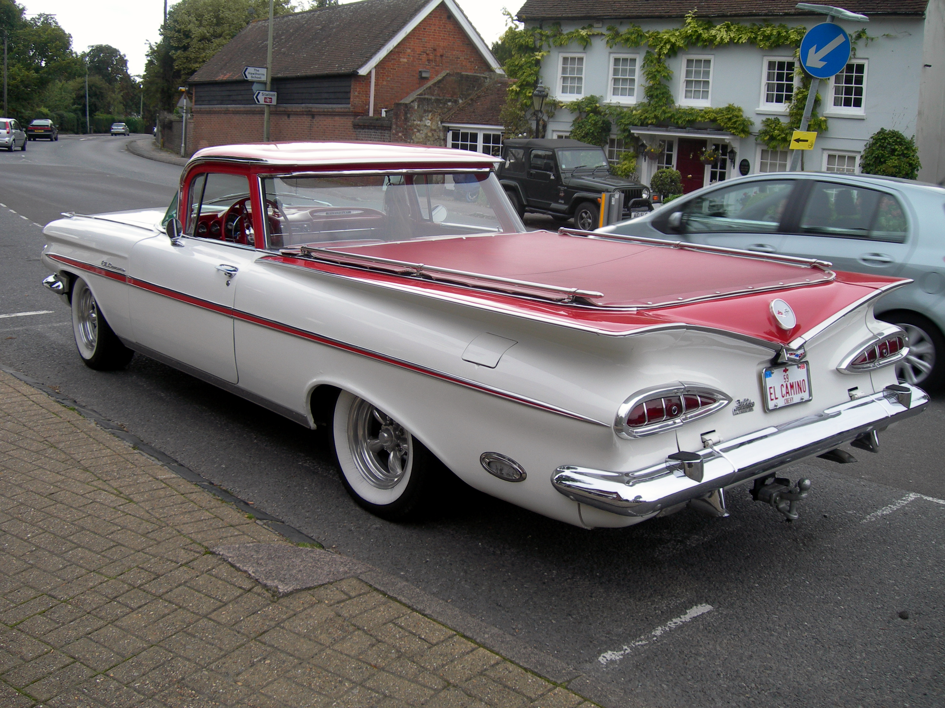 quite what this gem was doing parked in Merstham High St is anyones guess...19th Sep 2010